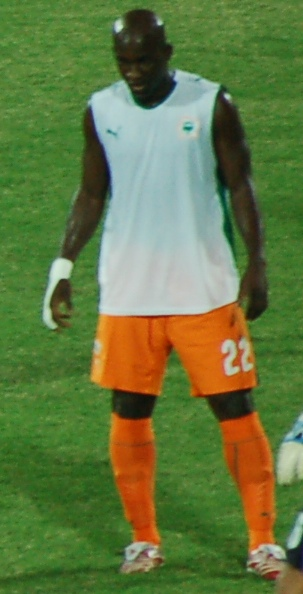 Marc Zoro, cropped from Arouna2.jpg: aken by myself in Kumasi, Ghana. Arouna (second left) warms up with Ivorian teammates at African Cup of Nations 2008 in Ghana.